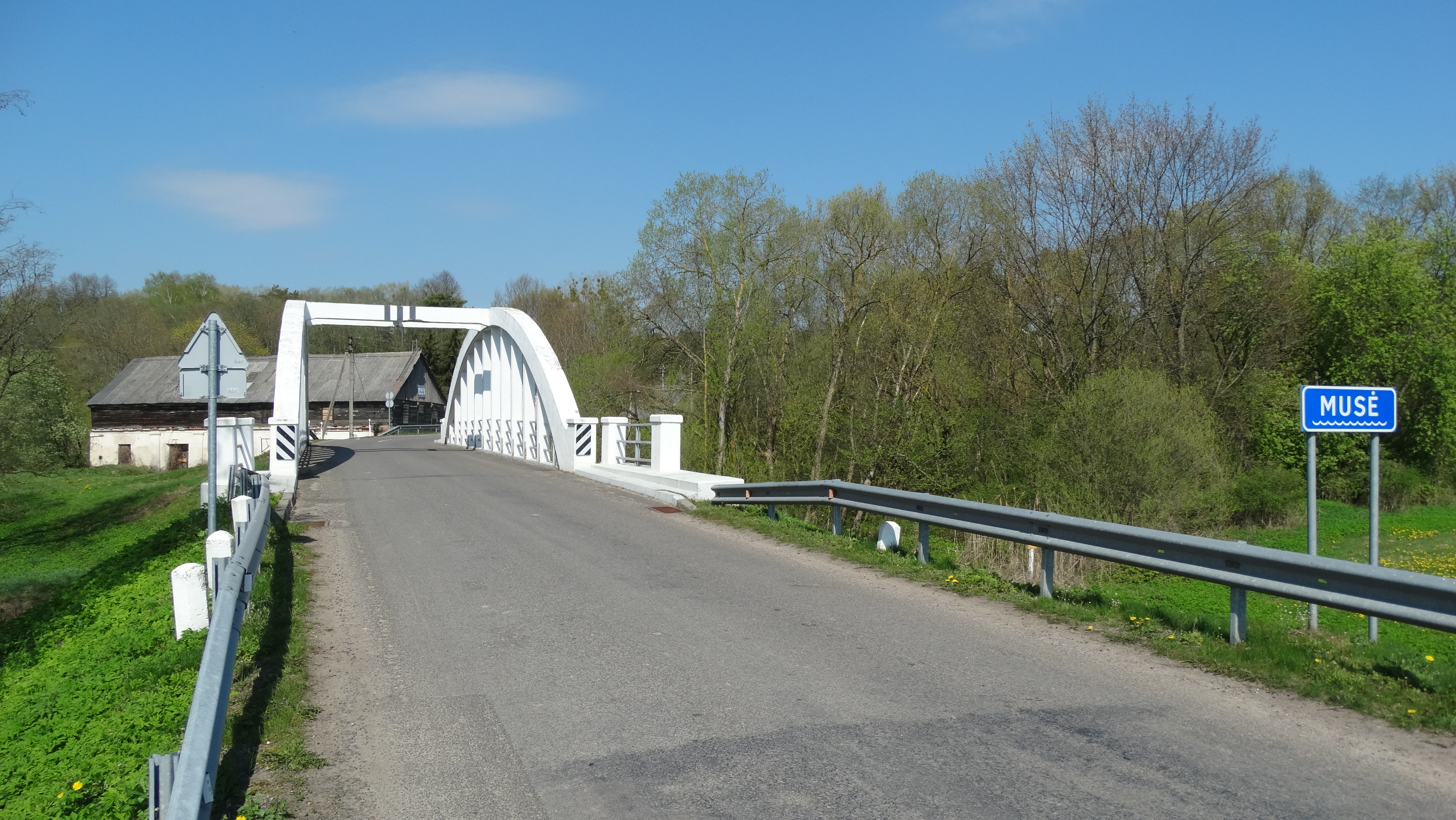 Bridge on Musė river, Čiobiškis, Širvintos District, Lithuania